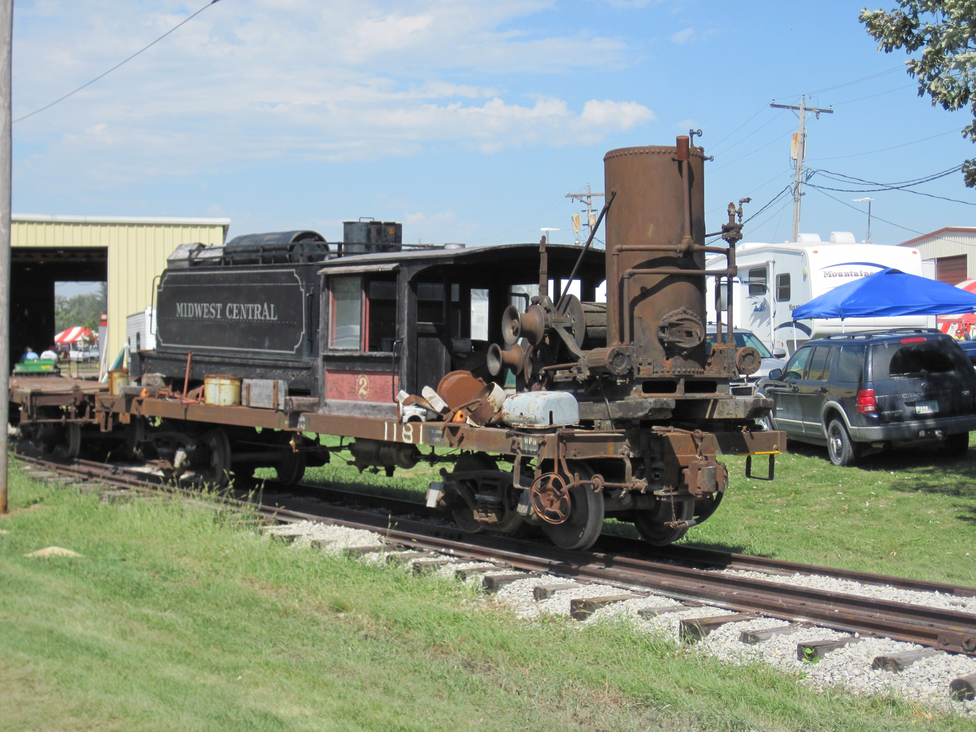 Baldwin Locomotive Works 2-6-0 engine, 1906, owned by Midwest Central Railroad.